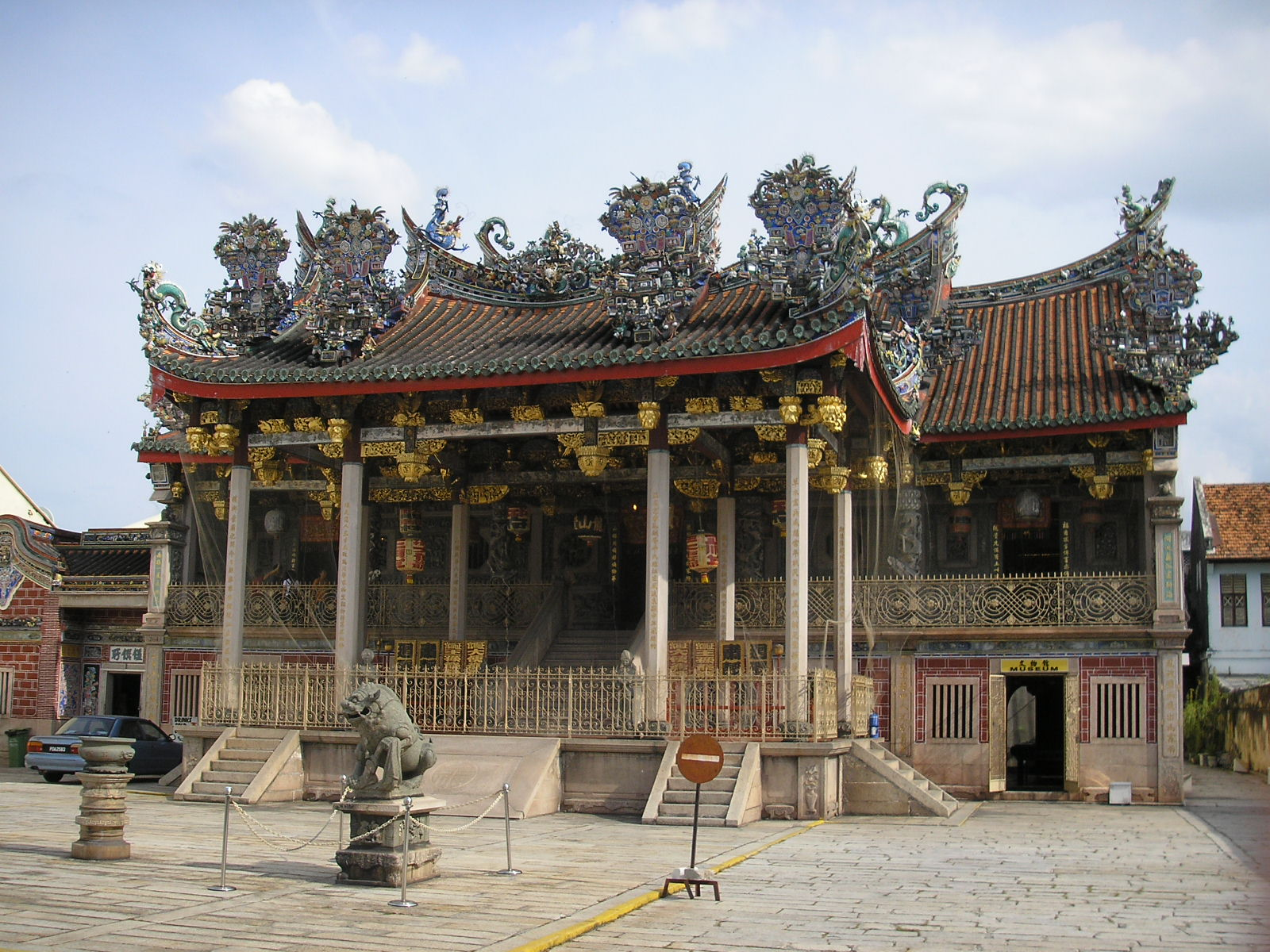 Image of the Leong San Tong Khoo Kongsi (also known as Khoo Kongsi Temple) in George Town, Penang.